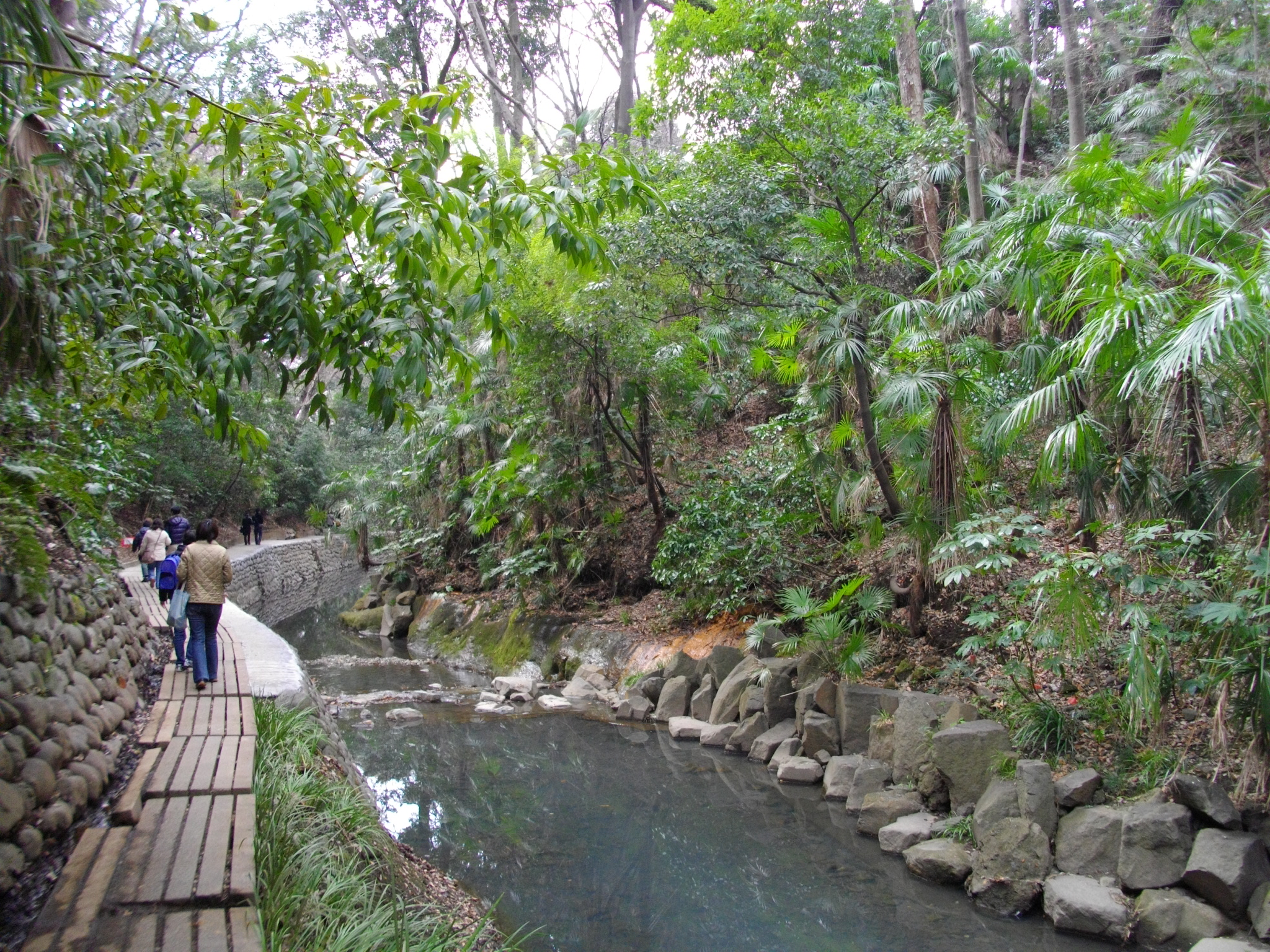 Todoroki Keikoku